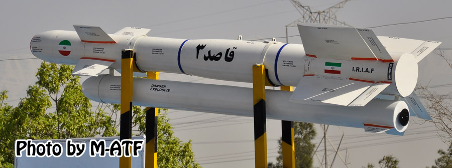 A highly-accurate rocket-boosted smart bomb with a range of over 100 km and a 2000 lb warhead , enabling IRIAF to strike hostile HVTs .